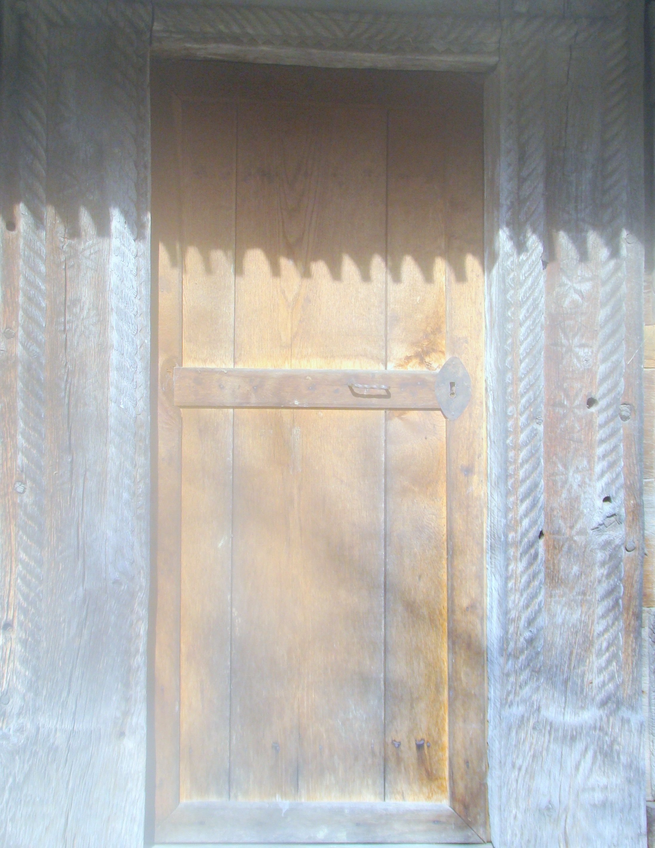 Biserica de lemn „Sf.Arhangheli” din Doba Mică, Sălaj